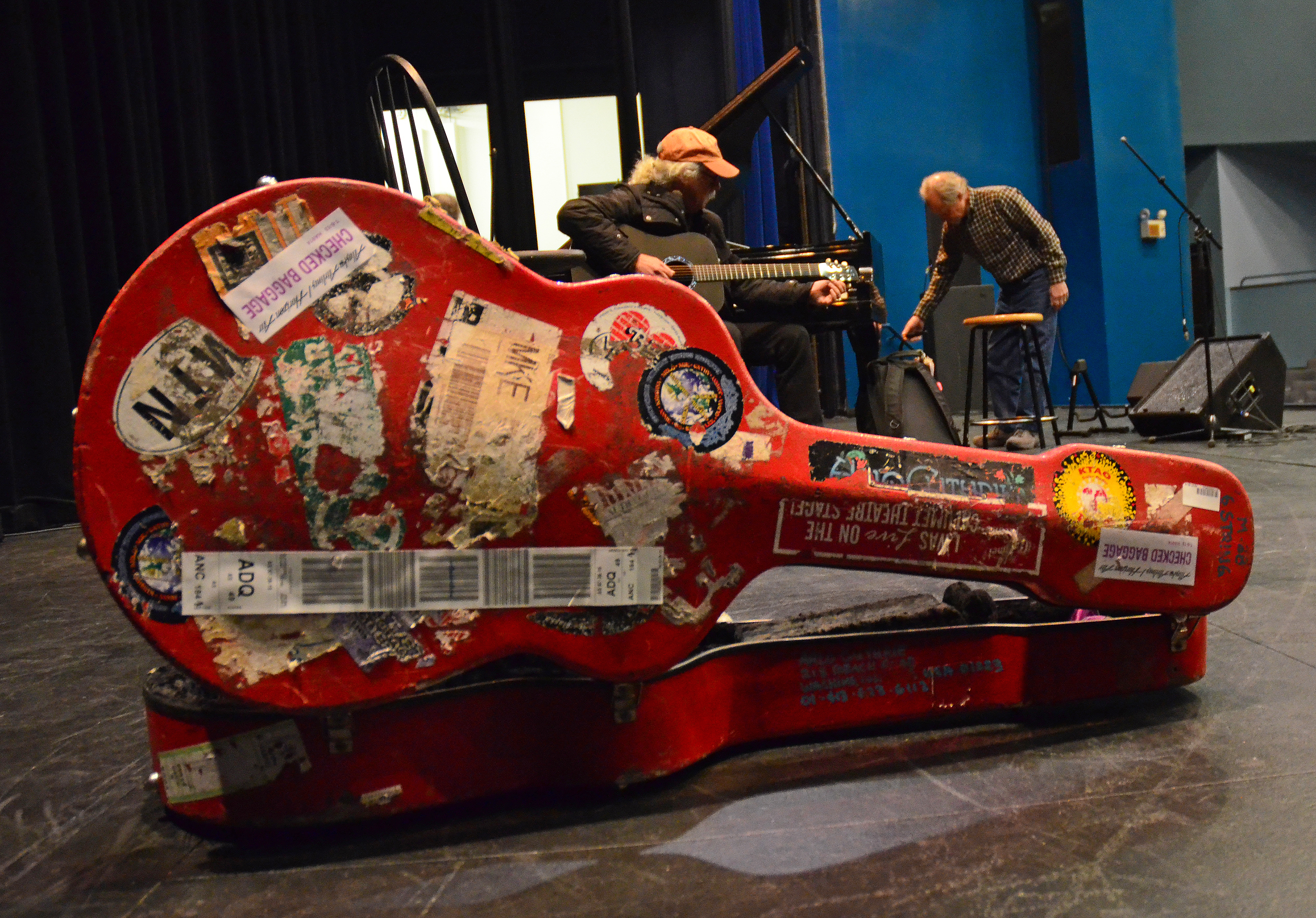 Arlo Guthrie unpacks his guitar on the Gerald C. Wilson Auditorium stage Tuesday afternoon, April 30, 2013. The famed folk musician performed Tuesday night in front of a sold-out show on Kodiak's largest public stage. Guthrie, who opened his Alaska tour with a show in Fairbanks on Sunday, will play in Juneau on Friday night and Anchorage on Saturday. (James Brooks photo)